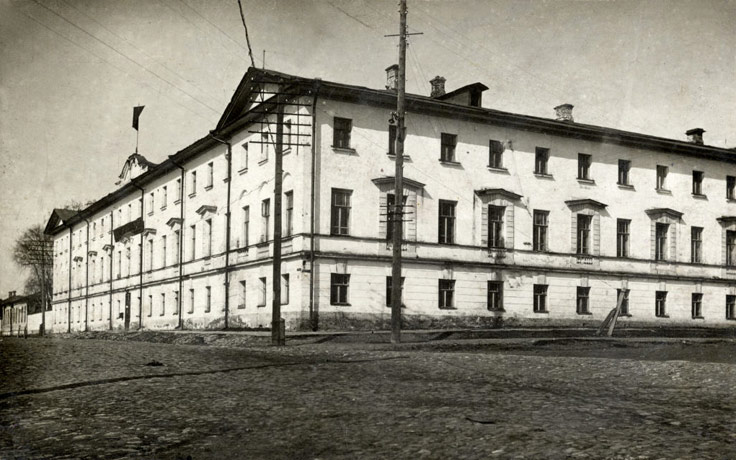 Theological_seminary_in_Perm